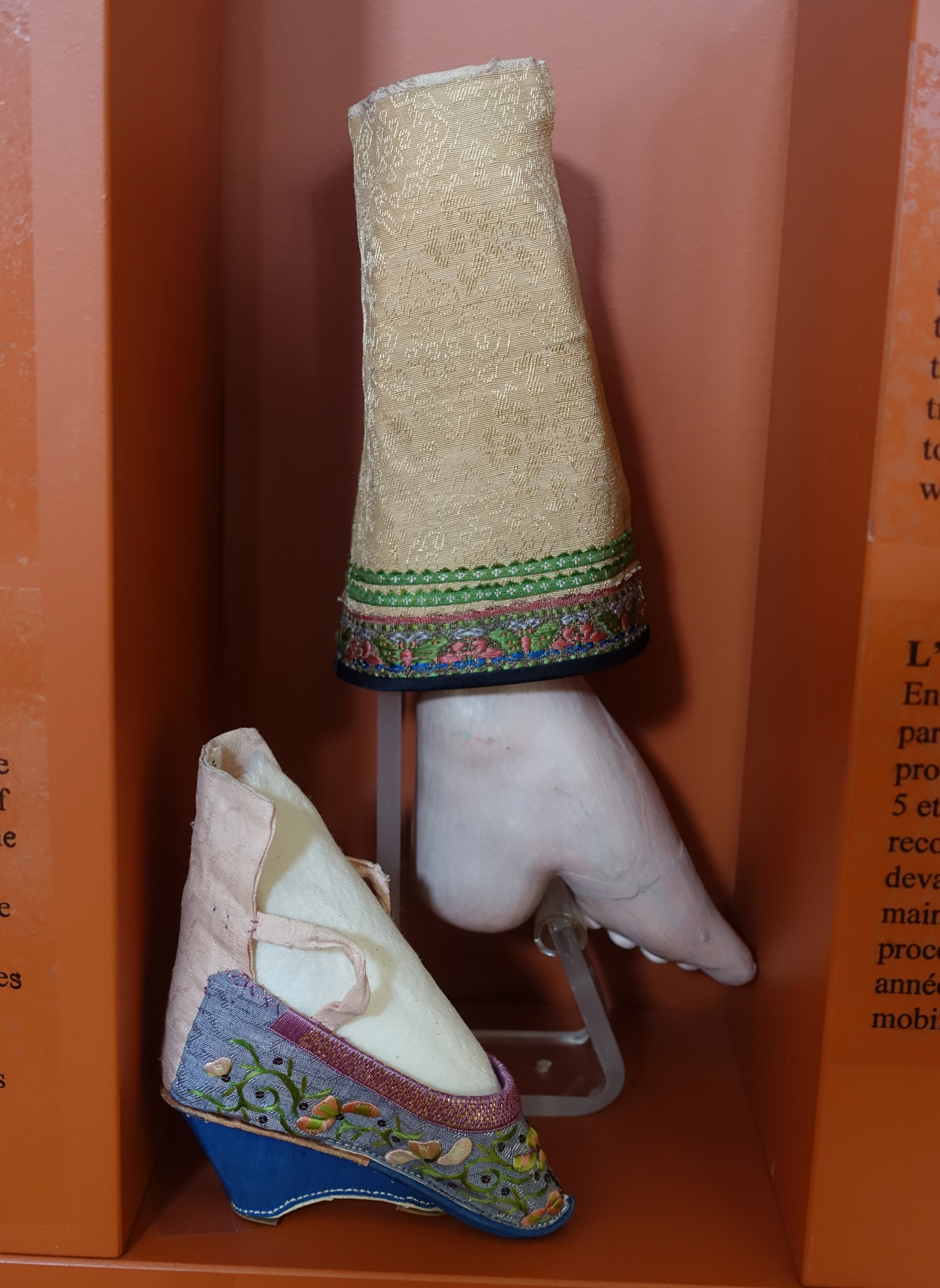 Exhibit in the Redpath Museum, McGill University - Montreal, Quebec, Canada.